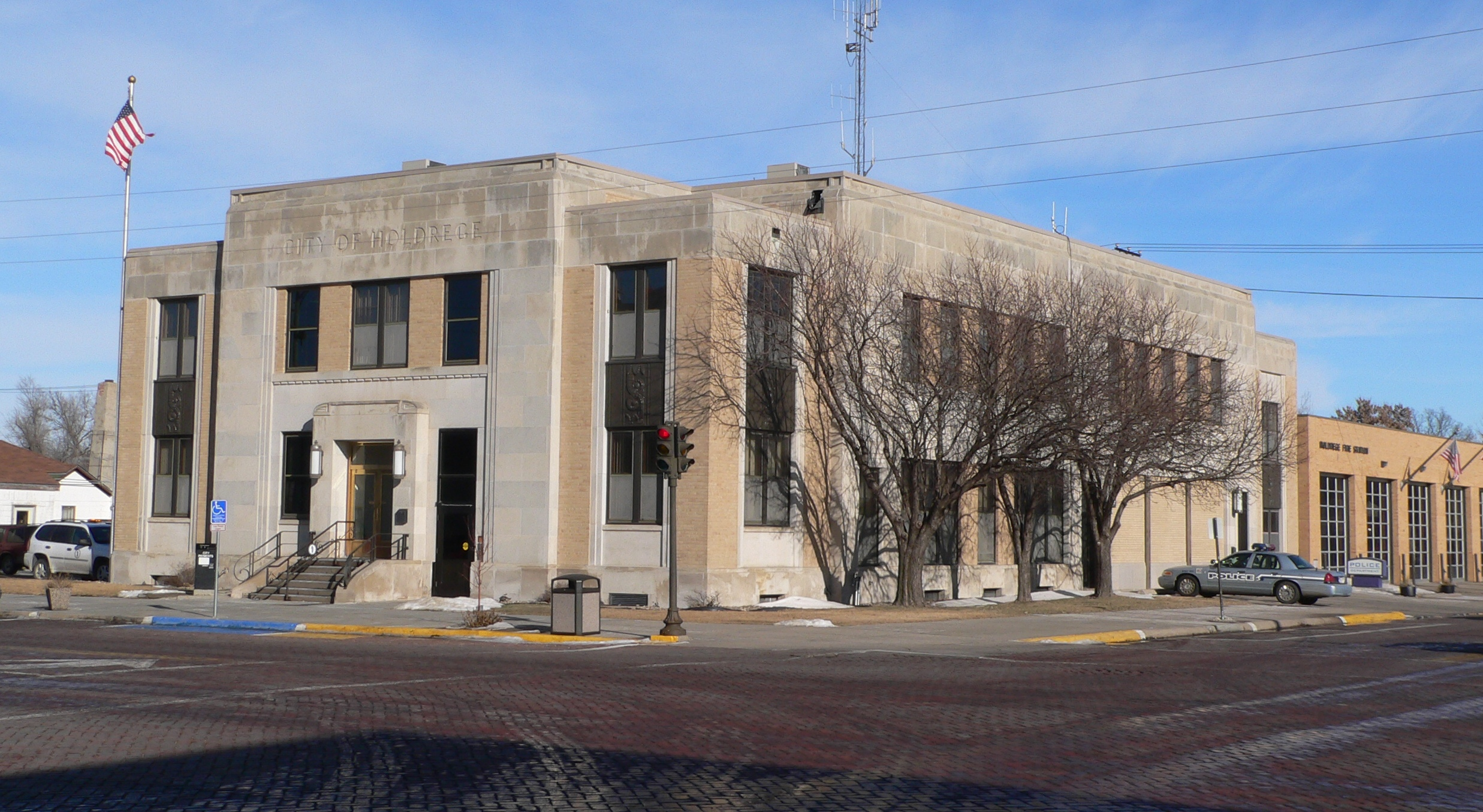 City hall in Holdrege, Nebraska, seen from the southwest. The Art Deco building was designed by architects John Latenser & Sons, and built in 1939. It is located at the northeast corner of 5th Ave. and East Ave.